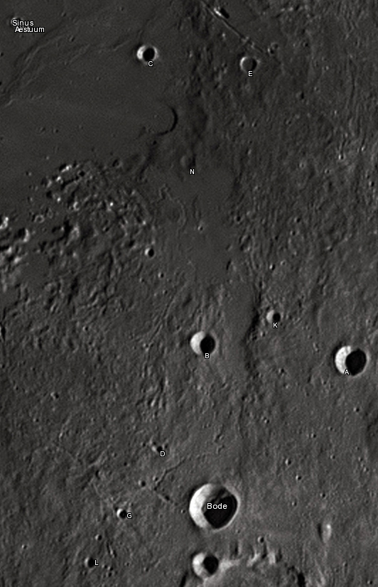 Bode lunar crater as seen from Earth with satellite craters labeled